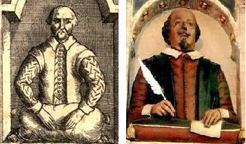 This is a composite image of Shakespeare's funerary monument and its depiction published in William Dugdale's Antiquities of Warwickshire (1656)